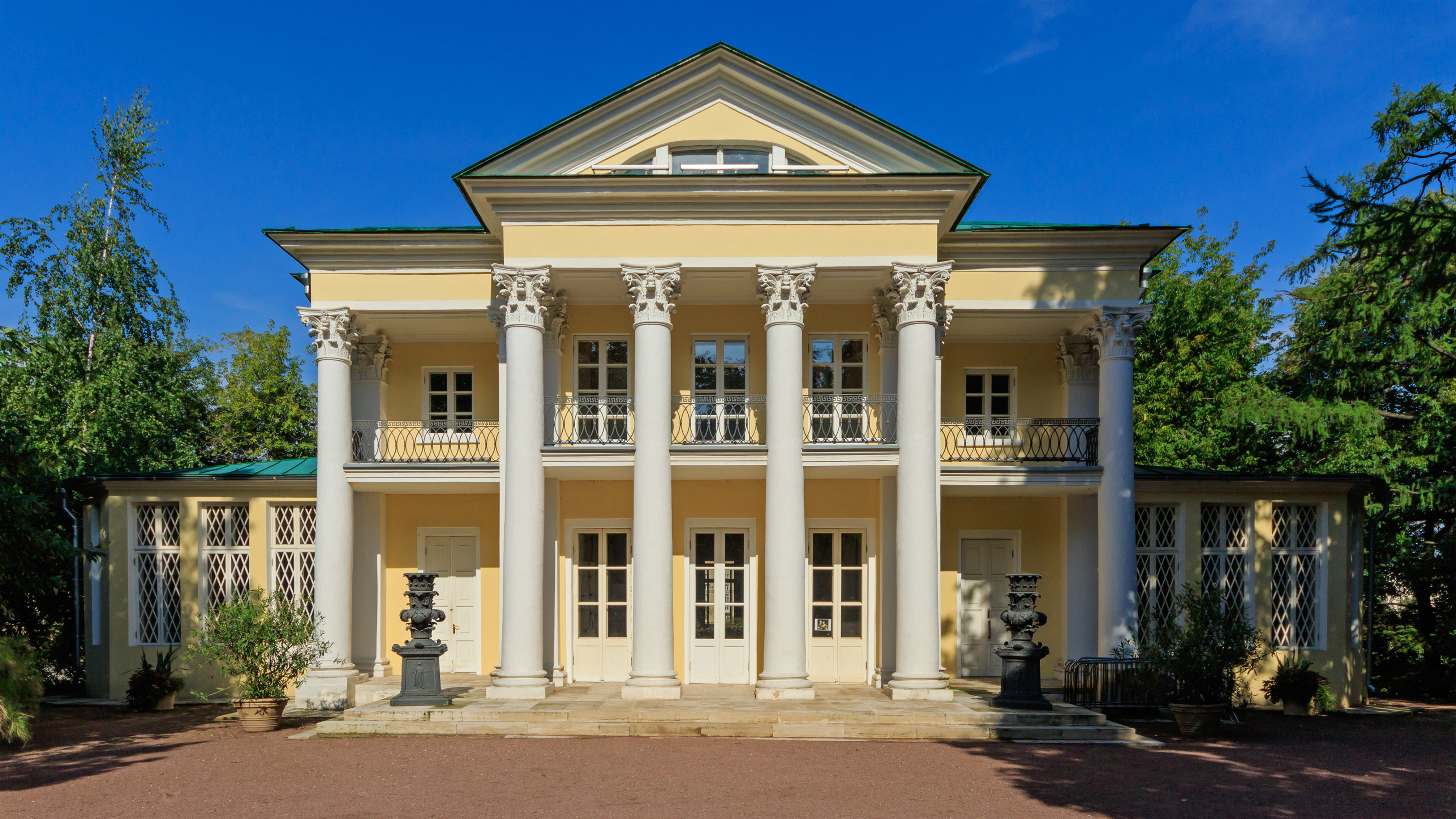 Summer House in Neskuchny Garden (part of former Neskuchnoe Estate). Moscow, Russia.